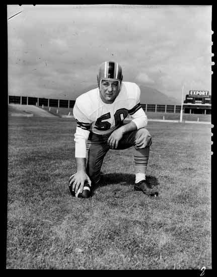 B.C. Lions football club, portraits, individual players, J.DeLuca VPL Accession Number: 84791G Date: August 21, 1955 Photographer / Studio: Jones, Art Content: Photo series 84791 to 84791AI Topic: Football players Portrait Stadiums Location: British Columbia - Vancouver - Hastings-Sunrise - Hastings Community Park Copyright Restrictions: Public Domain